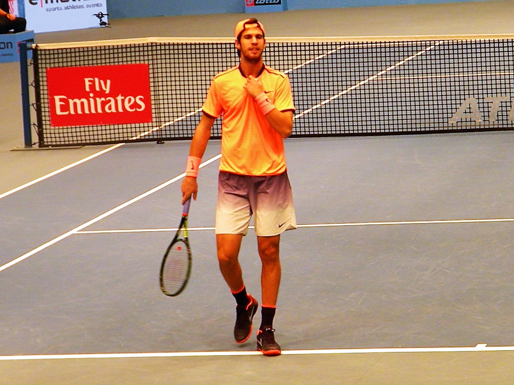 10/28/2016; Ivo Karlović (Croatia) against Karen Khachanov (Russia) 2-1; Quarterfinals